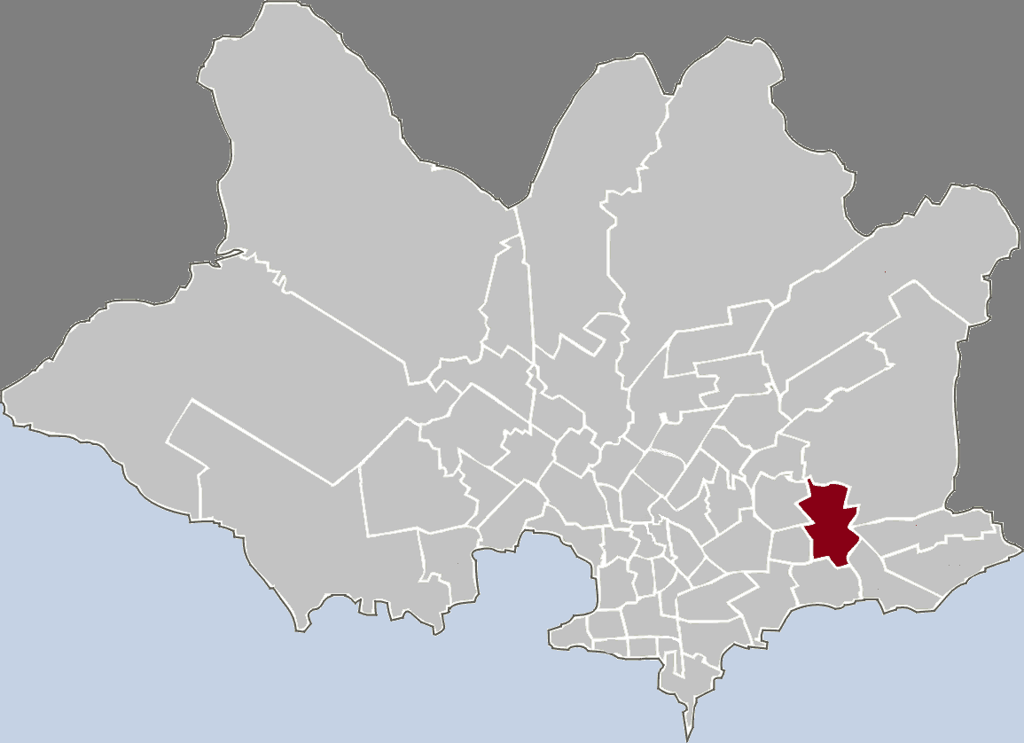 Blank map of the barrios of Montevideo